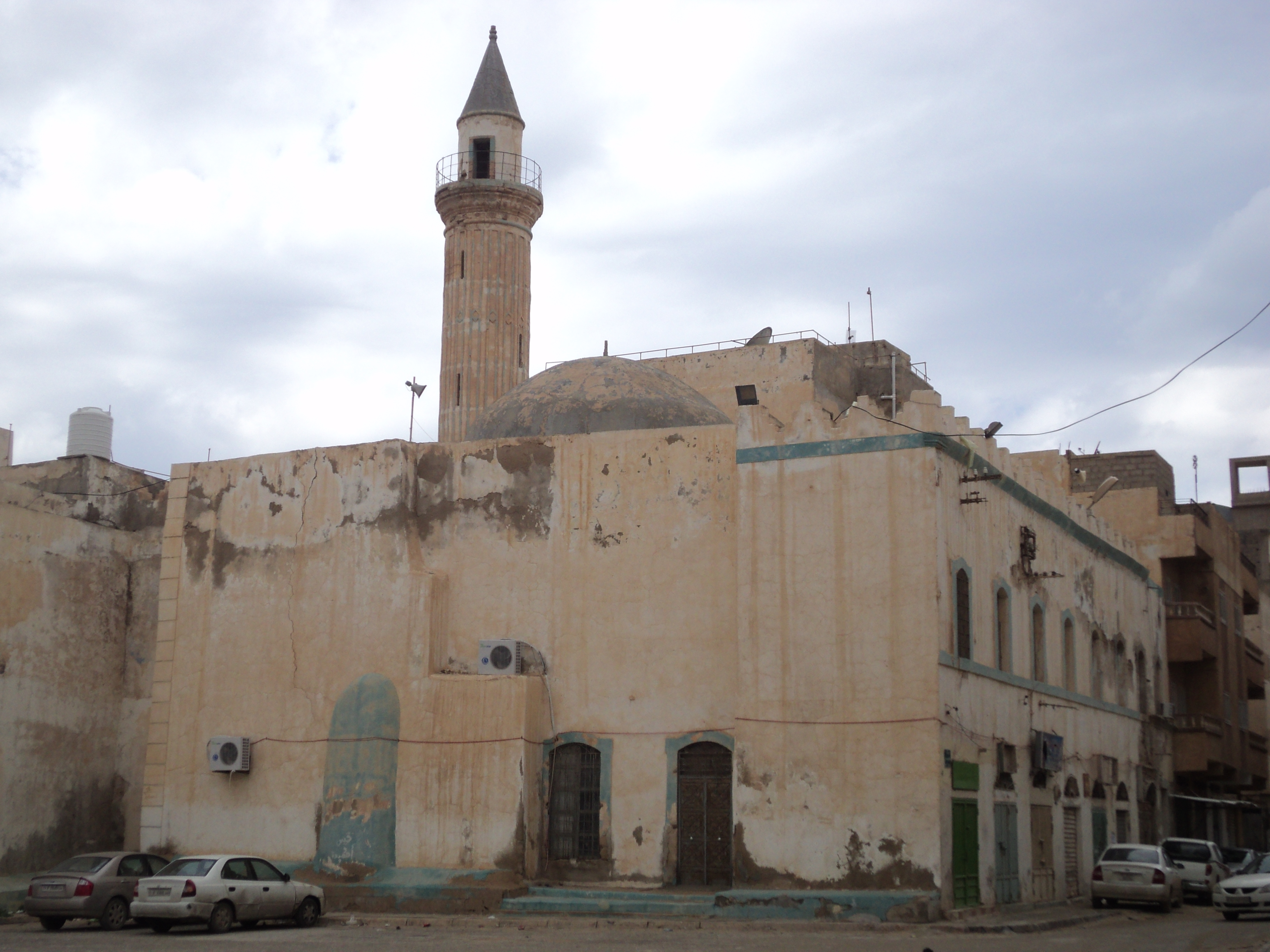 Osman mosque, Benghazi.